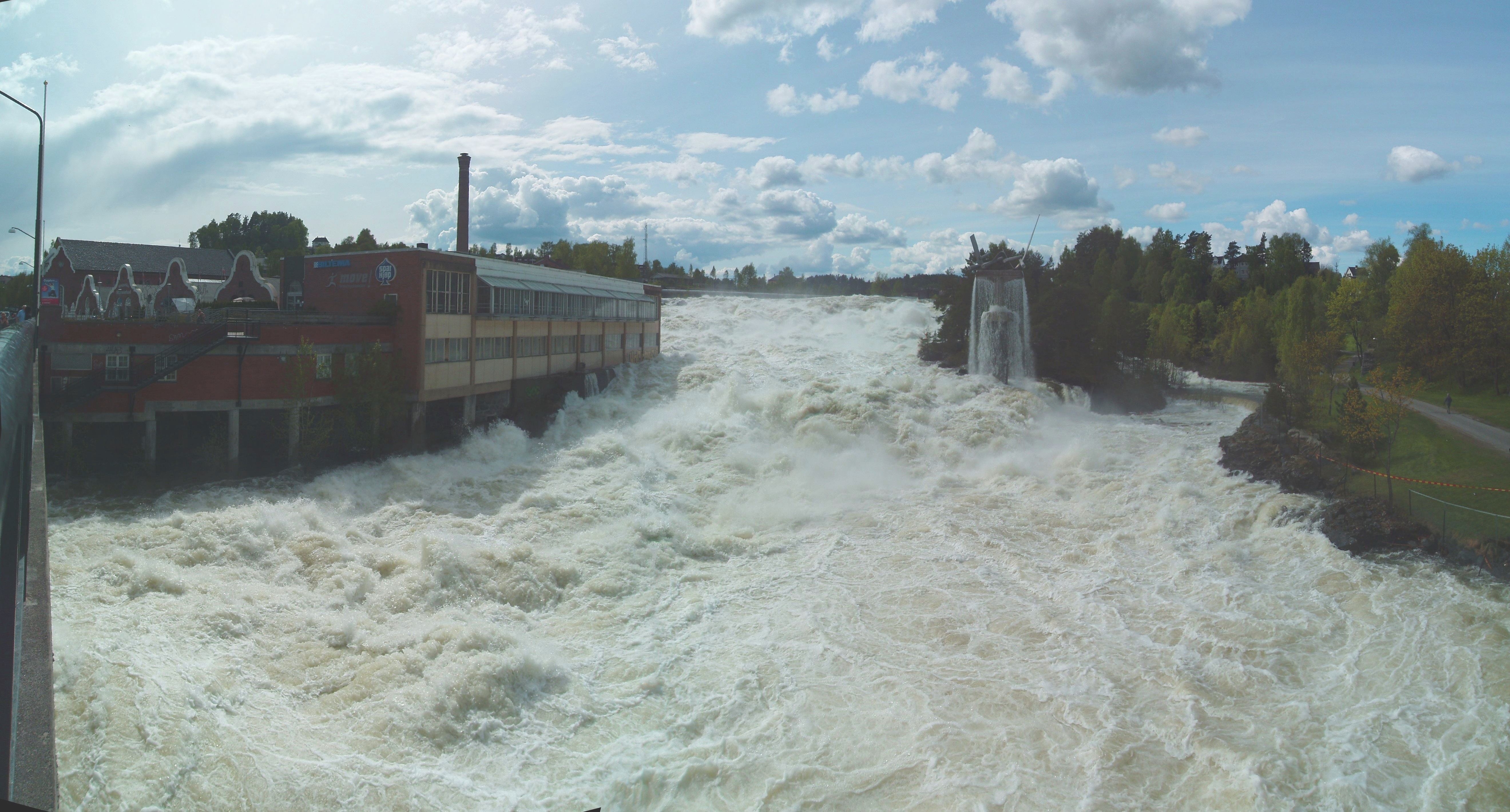 The regulated waterfall in the town of Hønefoss, South Norway, during the spring flooding 2013.